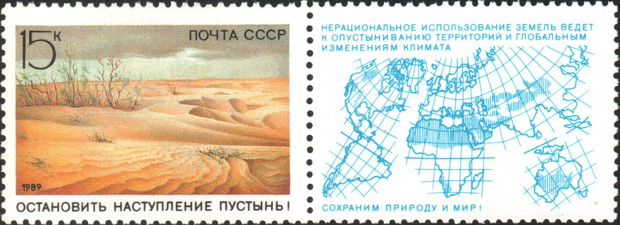 A USSR stamp, Nature Conservation; Anti desertification campaign, Value: 0,15, designer Yury Artsimenev Perf. 12 1/4 : 12